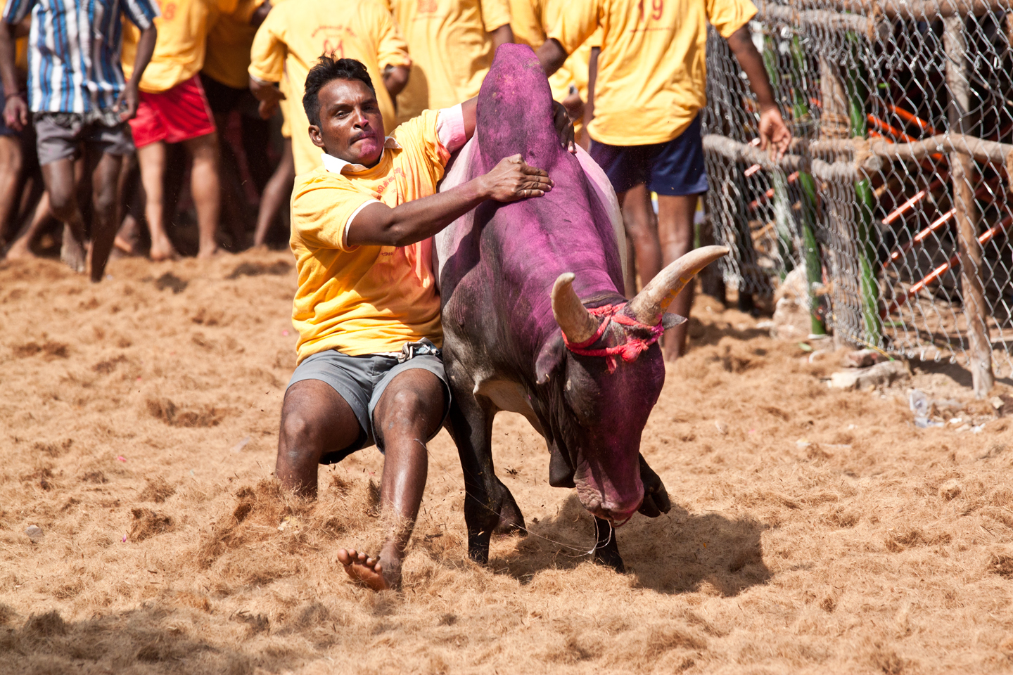 I've shot this thrilling moment in Jallikattu ( A traditional brave bull taming sport being played in Tamilnadu). Picture taken in Avaniyapuram near Madurai, Tamil Nadu, India